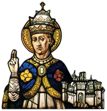 Pope Celestin V. with church of S. Maria di Collemaggio in L'Aquila in Italy (glass)